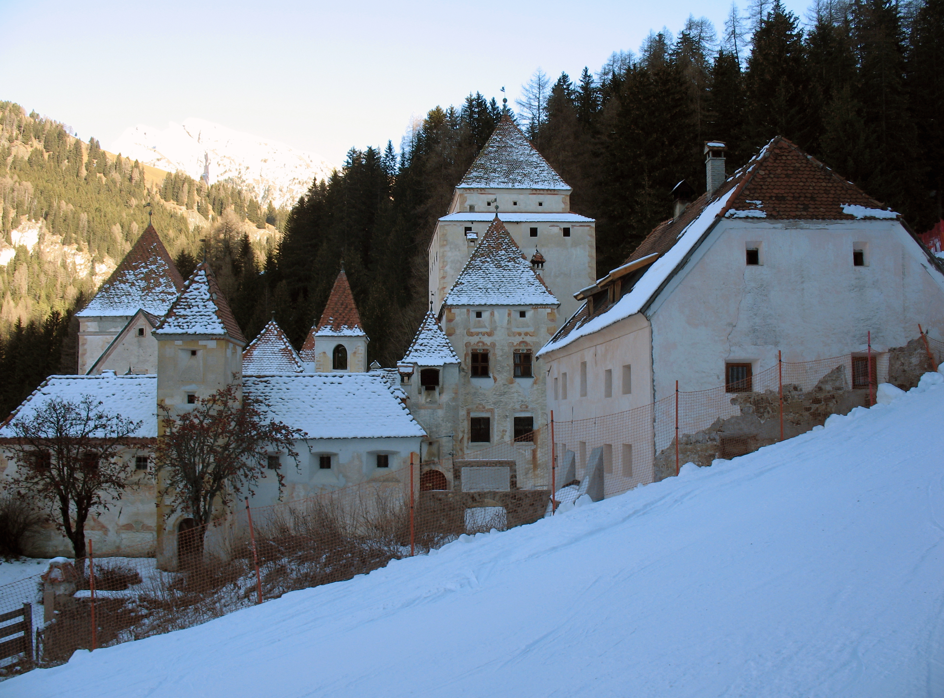 The castel Fischburg in Gröden - South Tyrol - the west view